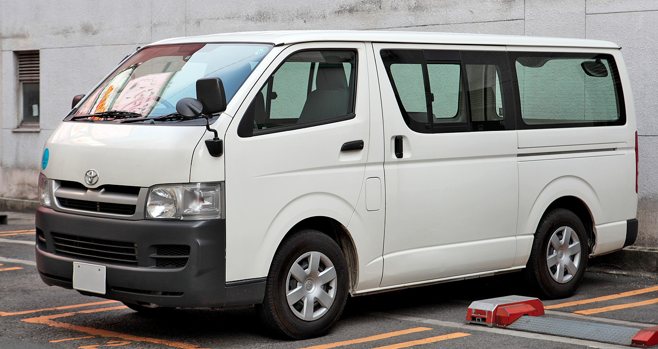 Toyota Hiace Long van standard roof 2.0 DX ( TRH200V )